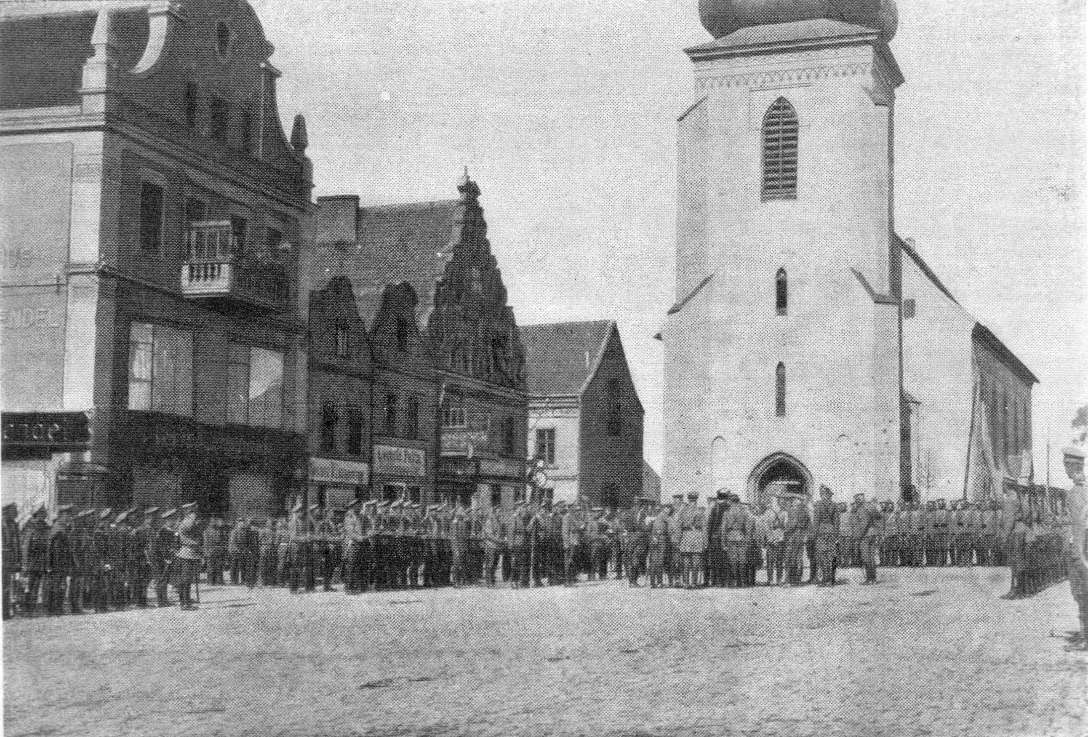 Russian Chevalier guards and Horse guards in Chernyakhovsk (before 1945 Insterburg, Eastern Prusia).